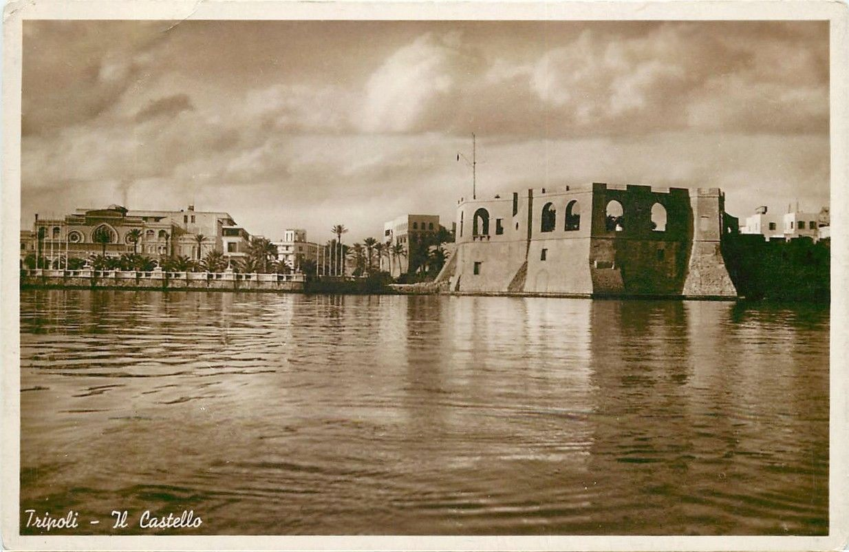 A circa 1940-1955 photograph of Italian Libya era Tripoli, from the Tripoli Bay harbour The Ottoman era Red Castle (Tripoli Castle museum) is on the right, and the corniche and former Teatro Miramare (demolished 1970s) are on the left. The Italian colonial Piazza Italia (1930s-1950s), or present day Martyrs' Square, is between them with palm trees and monument columns. This is also before the 1960s bay landfills expanded the city's land to and beyond the photographer's position on the harbour's water.